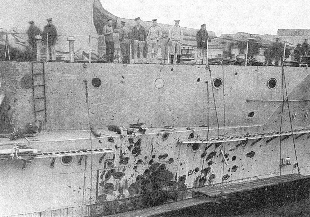 Damaged battleship Evstafii after the battle of cape Sarych on 18 November 1914.